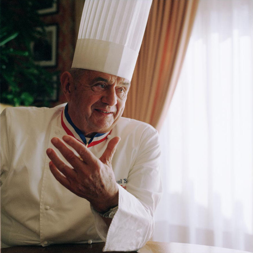 Paul Bocuse, French cook, by Alain Elorza.